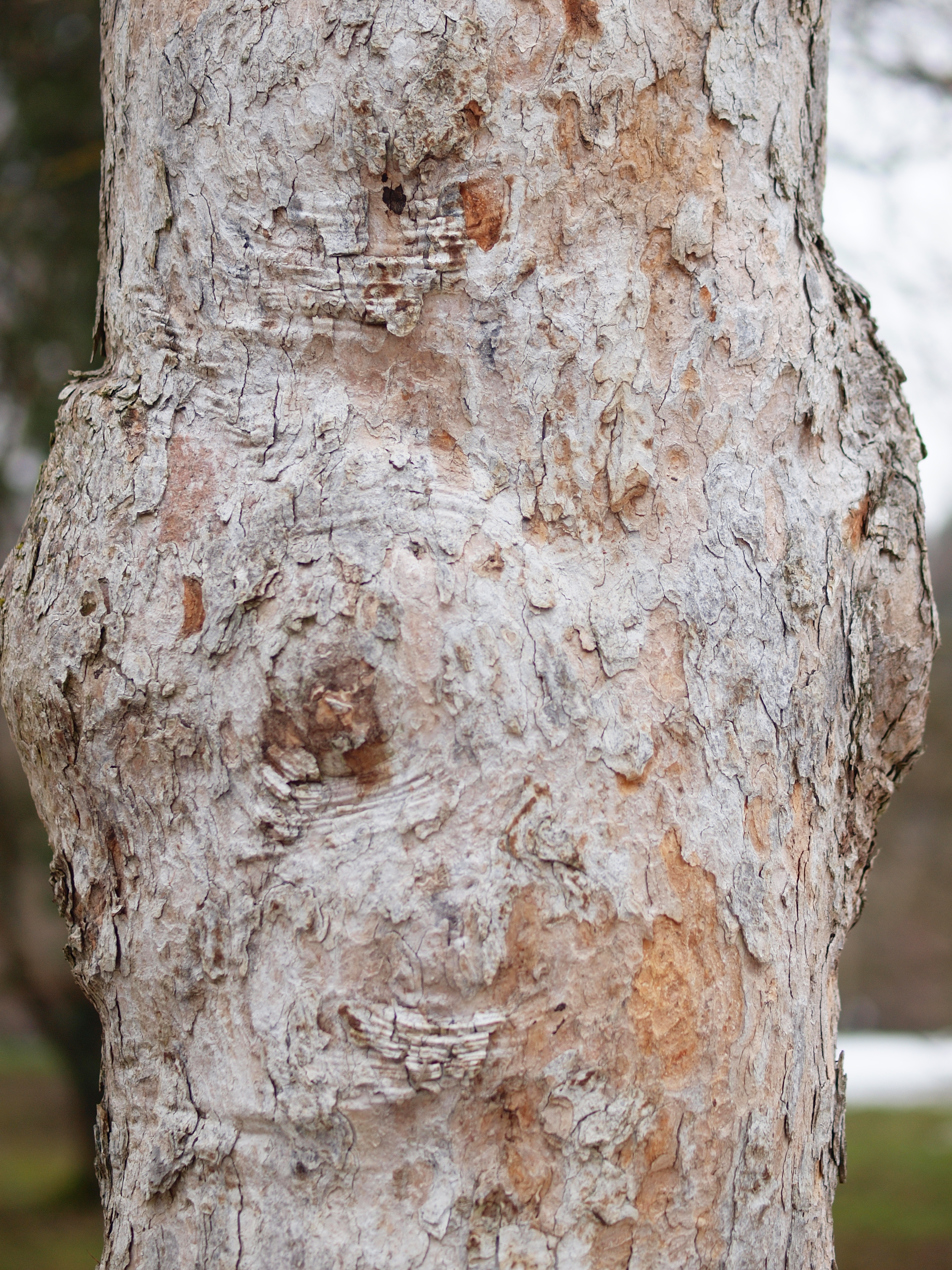 Acer trautvetteri Botanic gardens Munich - bark old tree